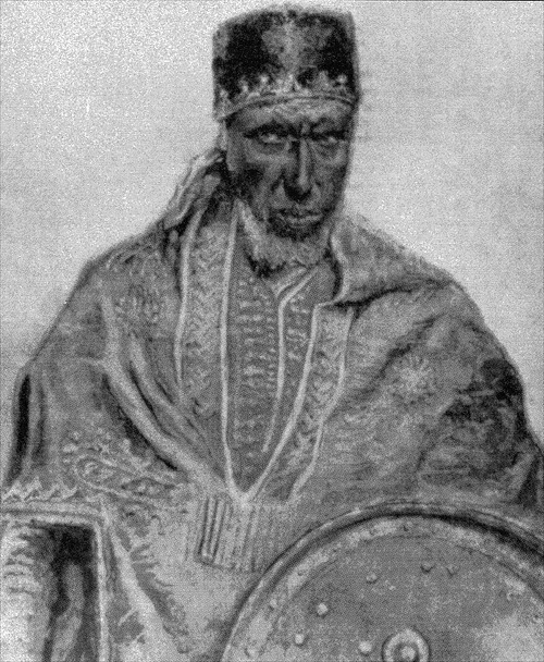 Own Scan. Public domain on account of age. From the book "Ras Alula and the Scramble for Africa: A Political Biography : Ethiopia & Eritrea 1875-1897 ", Red Sea Press,U.S. (1997), Haggai Erlich